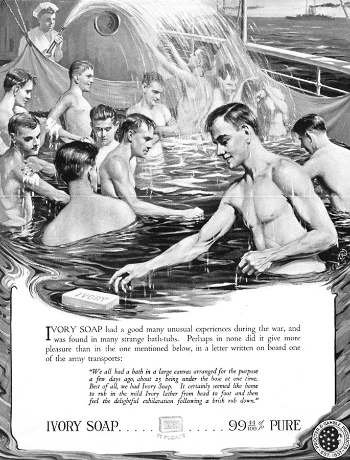 World War 1 era Ivory Soap ad with homosexual undertones